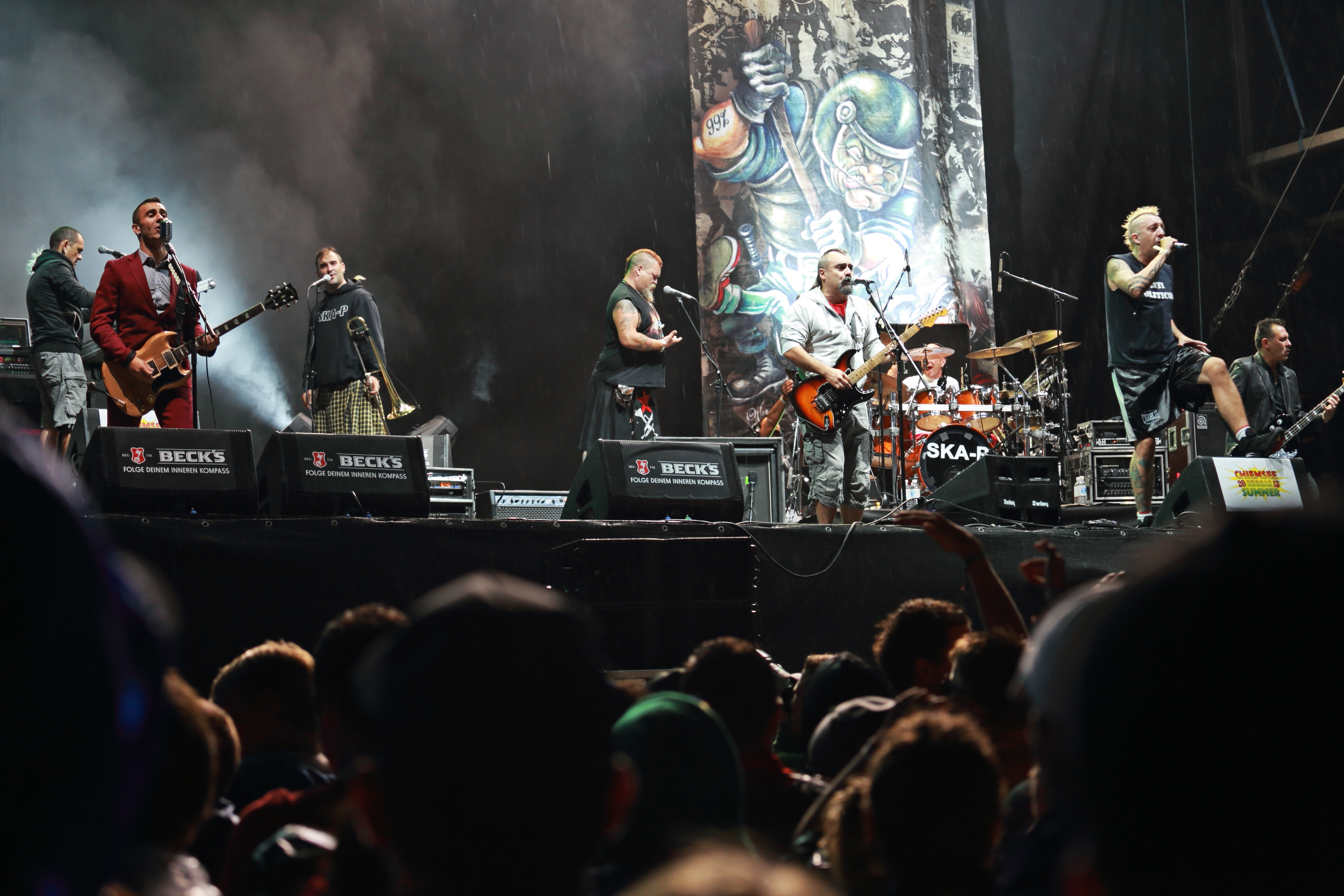 The complete band in its current instrumentation (2013)